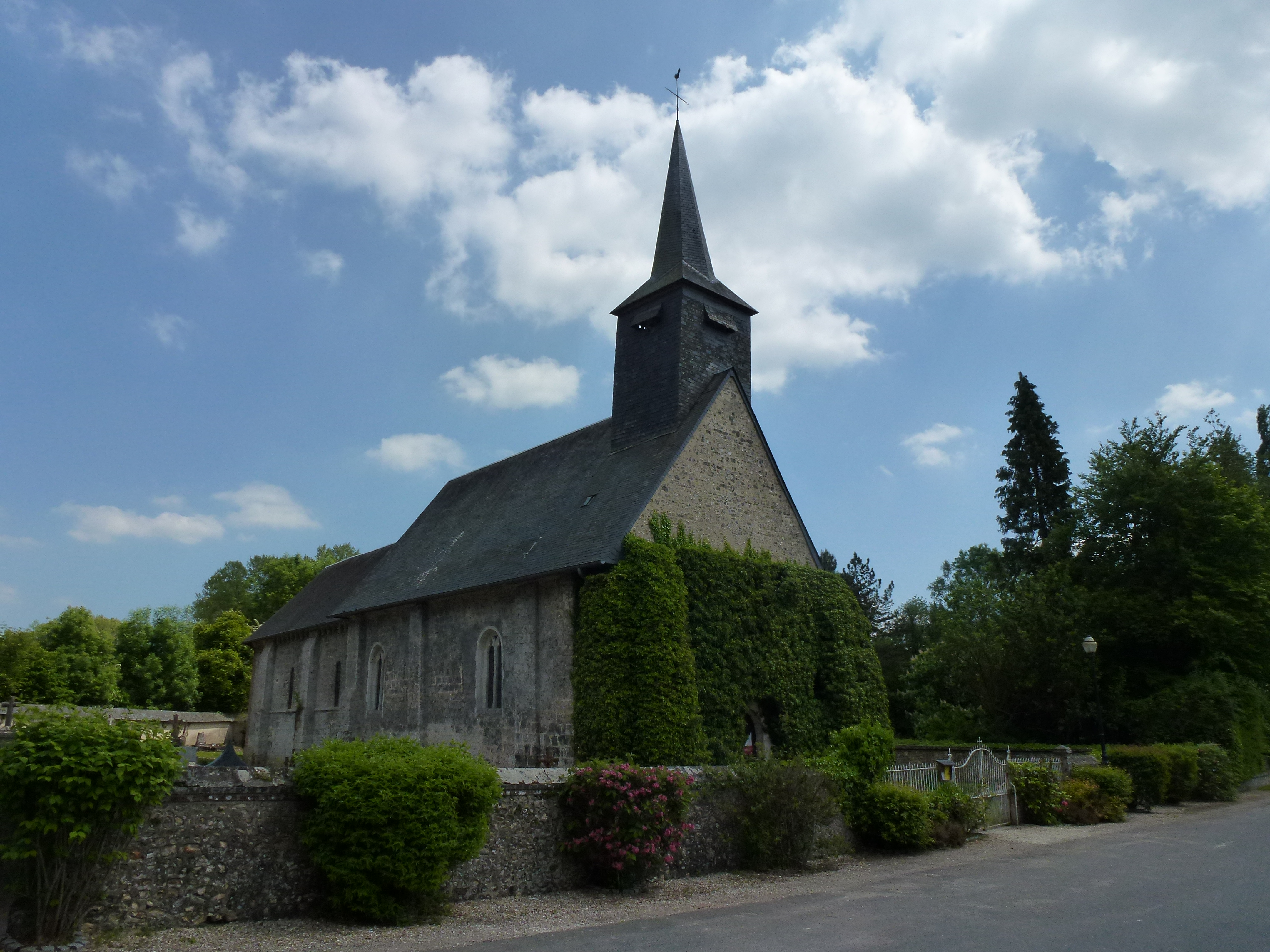 Bailleul-la-Vallée (Eure, Fr) église Notre-Dame-du-Rosaire.